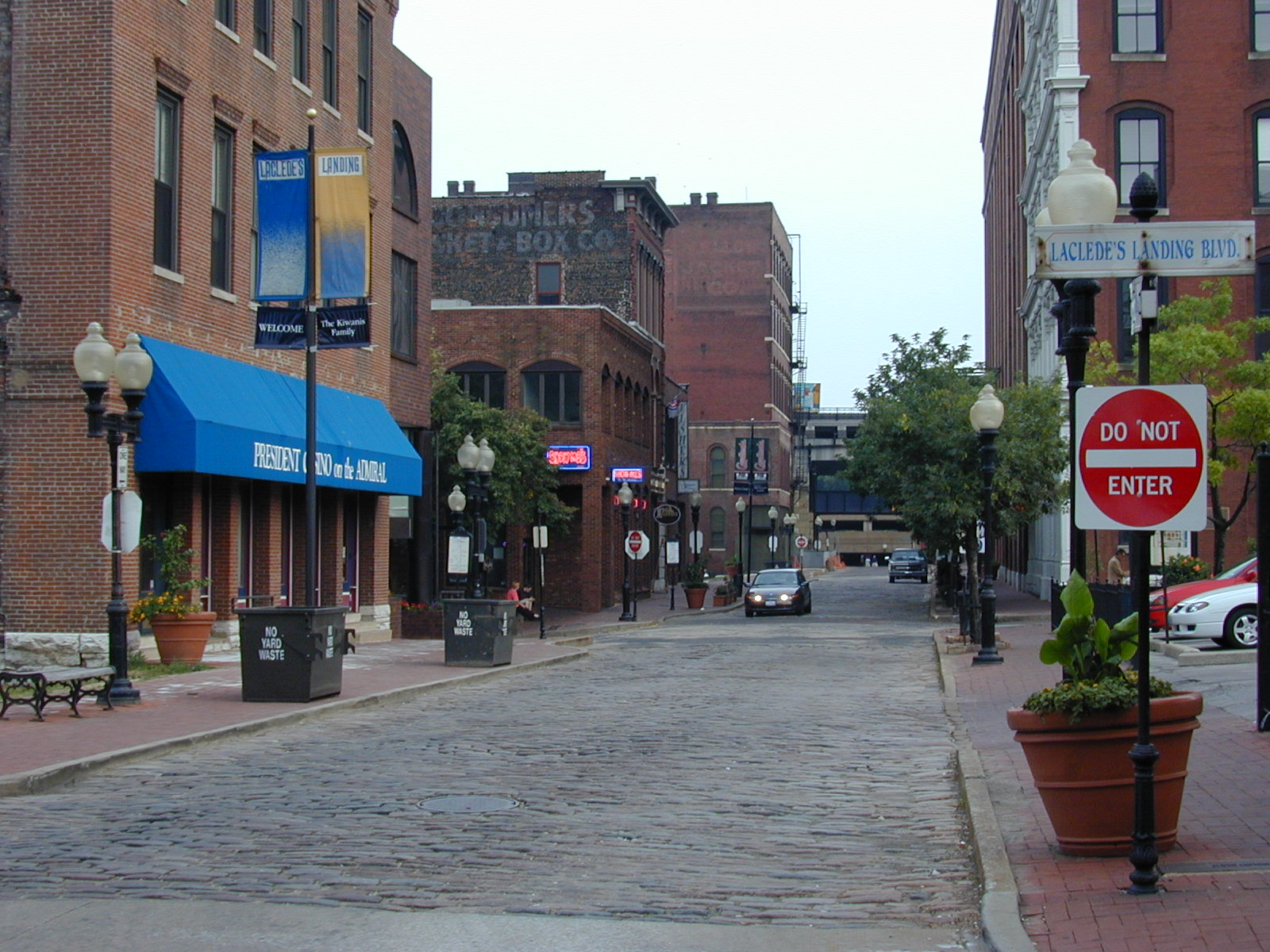 St. Louis: Lacledes Landing Jan Kronsell, July 2004